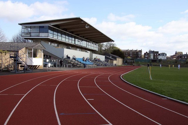 The Grandstand at the Roger Bannister running track, Oxford, England.